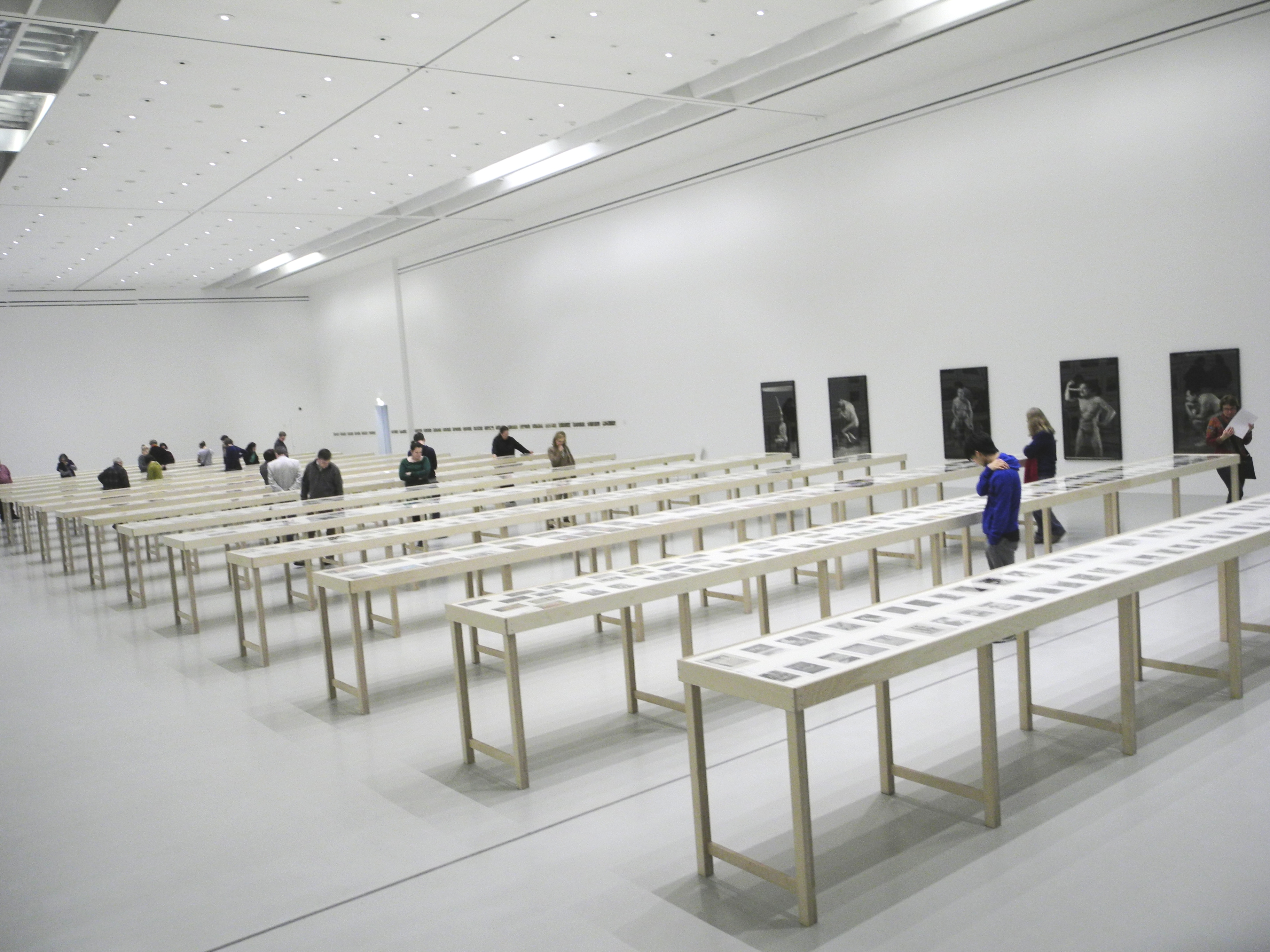 Exhibition of the works of Boris Mikhailov at the Sprengel Museum in Hannover, Germany.